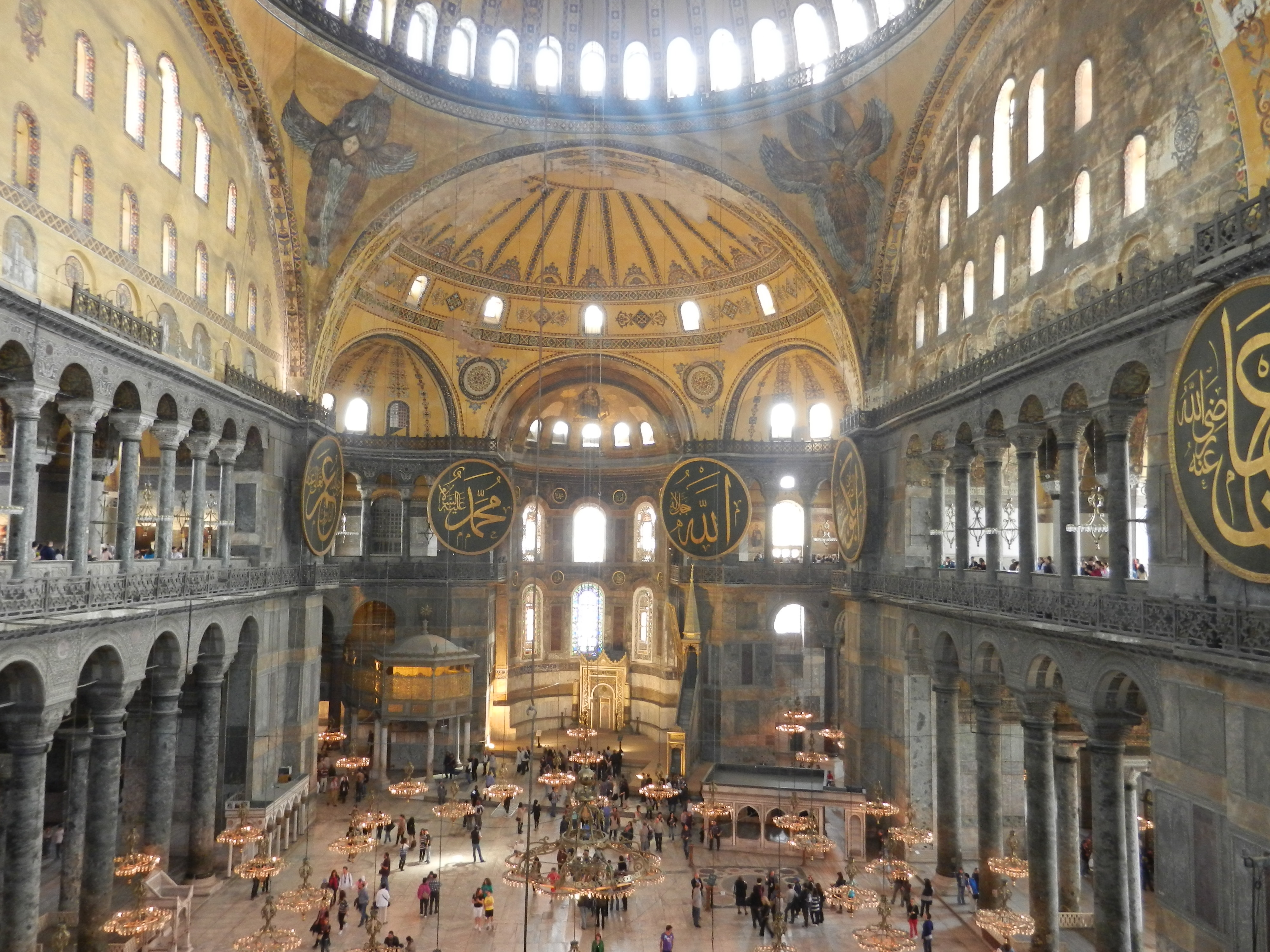 The ceiling of the Hagia Sophia, Istanbul, Turkey